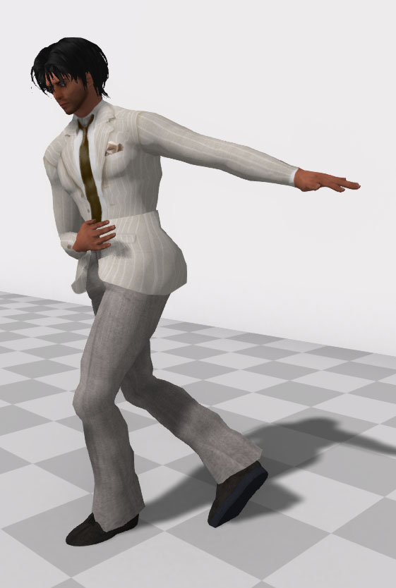 bow and scrape